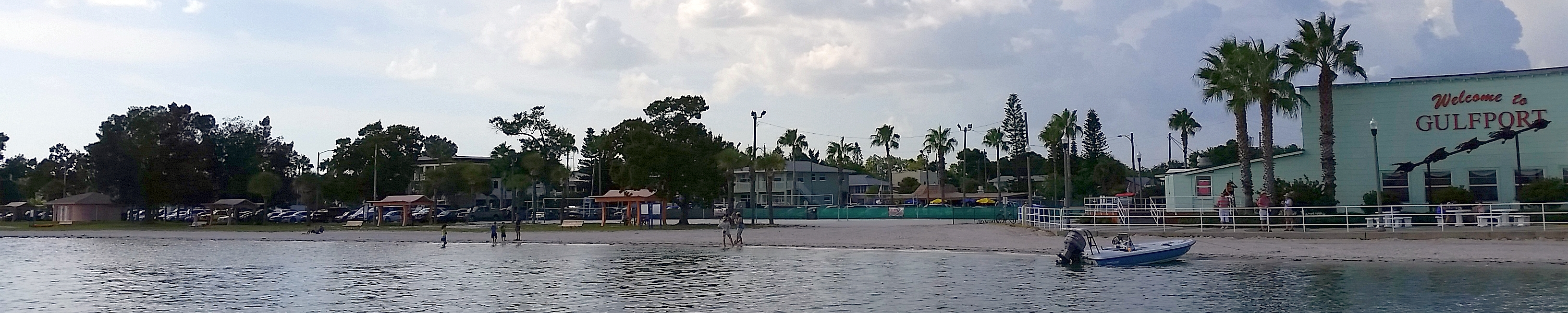 Gulfport Merchant's Association present the 14th Annual GeckoFest. 3129 Beach Blvd., Gulfport 33707 #GeckoFest